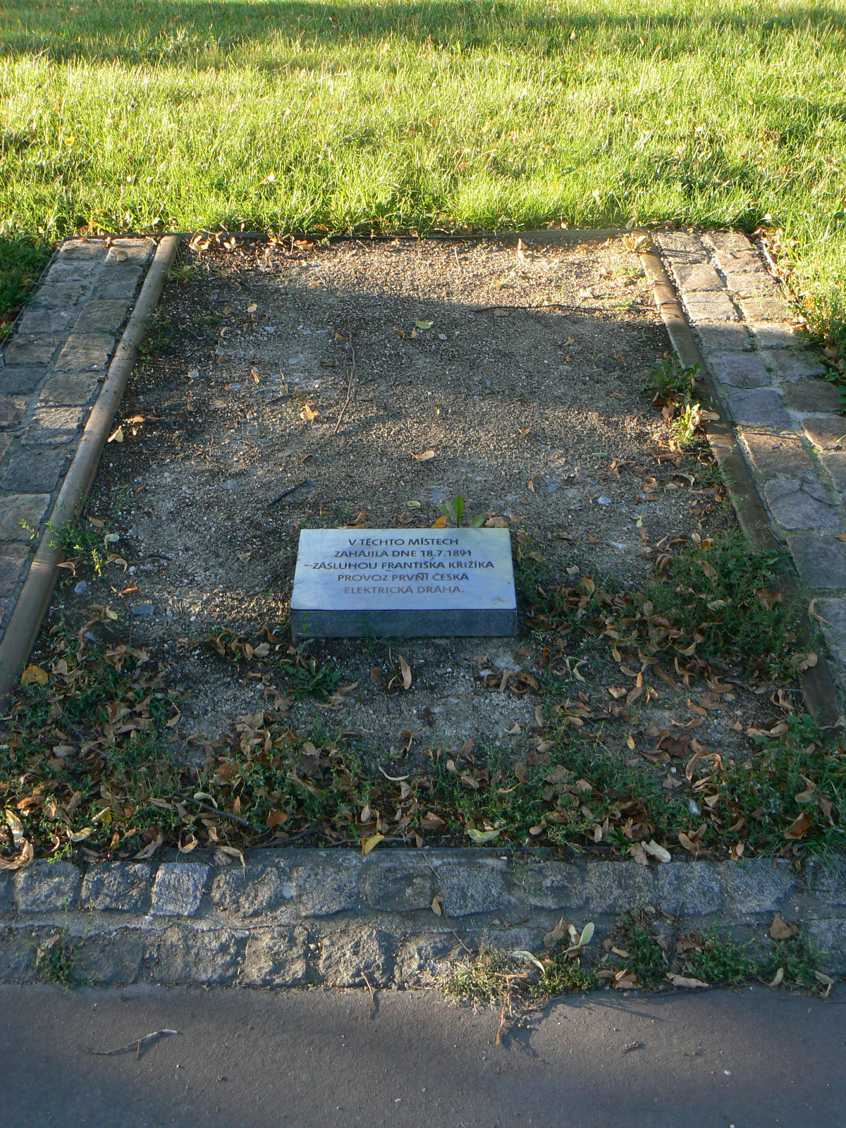 Pamětní deska Křižíkovy tramvaje, Praha-Letná